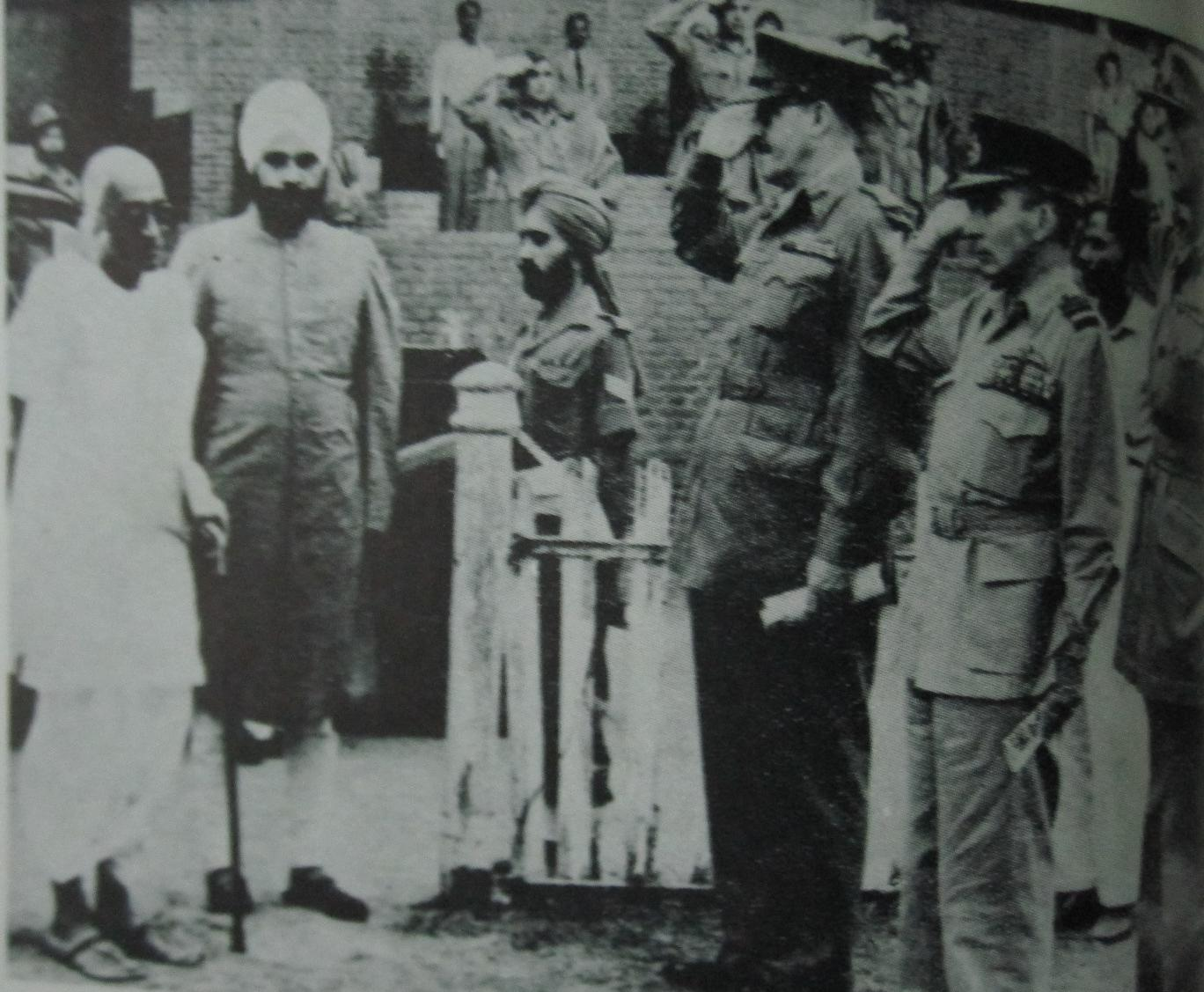 Chakravarthi Rajagopalachari, Governor General of Dominion of the Dominion of India, and Baldev Singh India's first Defense Minister along with service chiefs (General Roy Bucher, Air Marshall Thomas Elmhirst and Admiral Edward Parry, )in 1948